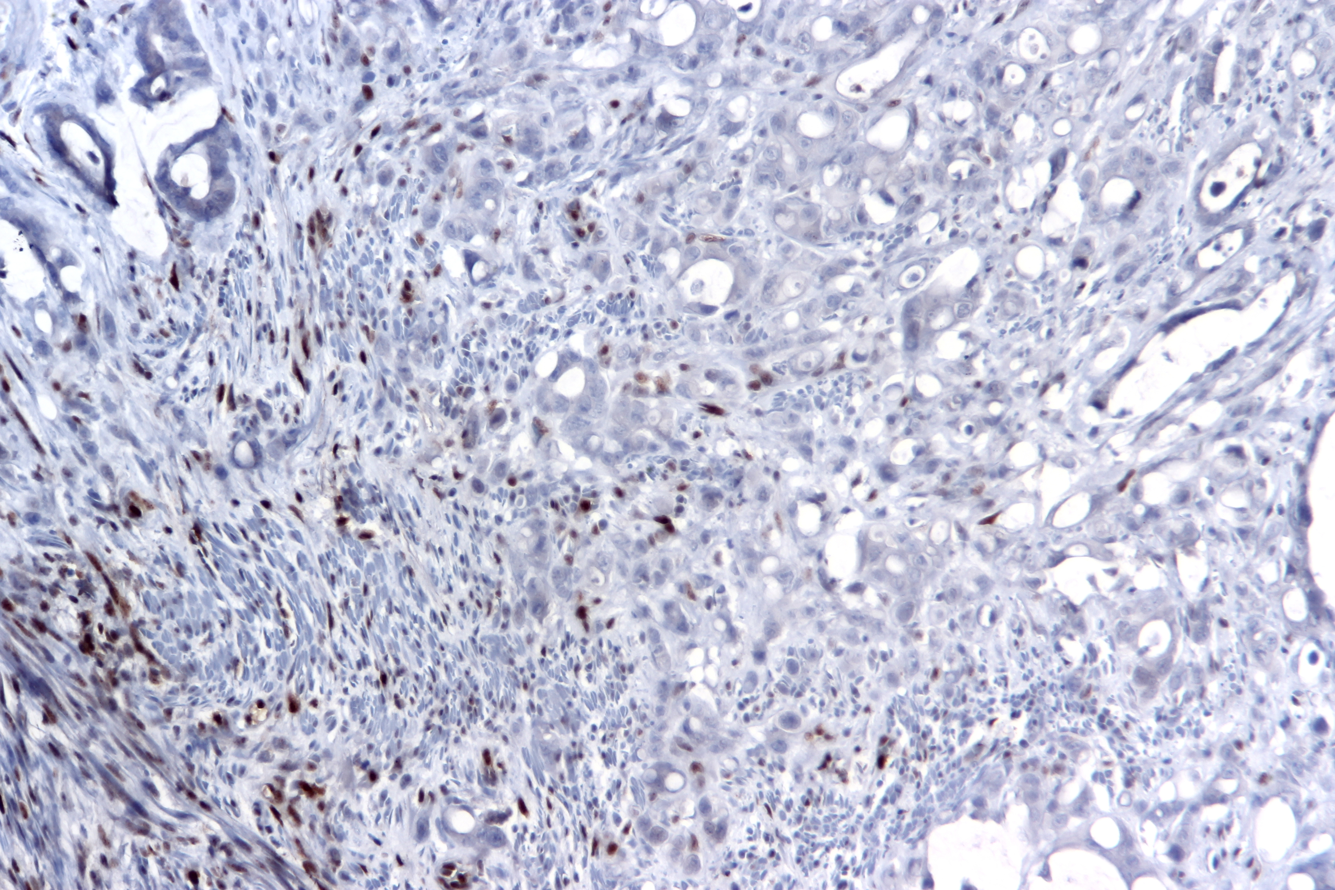 MLH1 immunostain with negative nuclear staining of the tumor cells and intact staining in internal control lymphocytes and stroma. High microsatellite instabile (MSI-H) colorectal adenocarcinoma demonstrating loss of MLH1/PMS2 and intact MSH2/MSH6 expression.